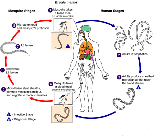 Filariasis Life cycle of Brugia malayi The typical vector for Brugia malayi filariasis are mosquito species from the genera Mansonia and Aedes. During a blood meal, an infected mosquito introduces third-stage filarial larvae onto the skin of the human host, where they penetrate into the bite wound. They develop into adults that commonly reside in the lymphatics. The adult worms resemble those of Wuchereria bancrofti but are smaller. Female worms measure 43 to 55 mm in length by 130 to 170 μm in width, and males measure 13 to 23 mm in length by 70 to 80 μm in width. Adults produce microfilariae, measuring 177 to 230 μm in length and 5 to 7 μm in width, which are sheathed and have nocturnal periodicity. The microfilariae migrate into lymph and enter the blood stream reaching the peripheral blood. A mosquito ingests the microfilariae during a blood meal. After ingestion, the microfilariae lose their sheaths and work their way through the wall of the proventriculus and cardiac portion of the midgut to reach the thoracic muscles. There the microfilariae develop into first-stage larvae and subsequently into third-stage larvae. The third-stage larvae migrate through the hemocoel to the mosquito's prosbocis and can infect another human when the mosquito takes a blood meal.